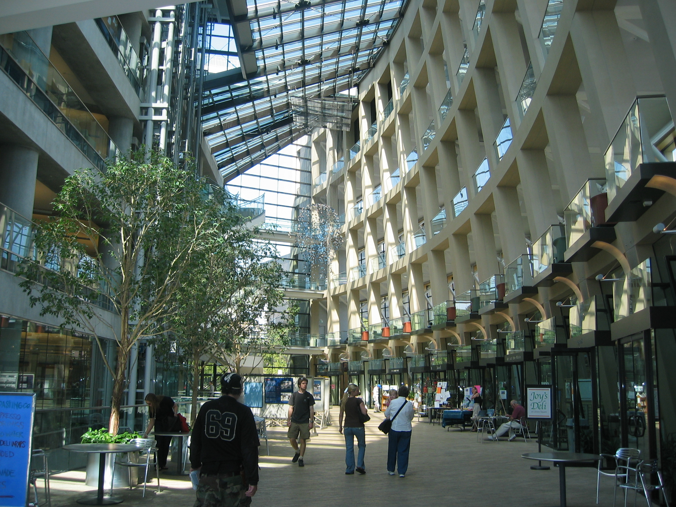 Main hallway of the Salt Lake City Public Library, Utah.